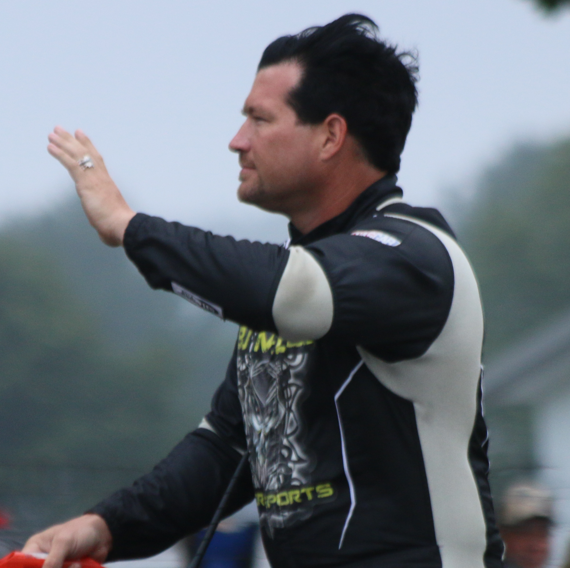 NASCAR driver B. J. McLeod at Road America